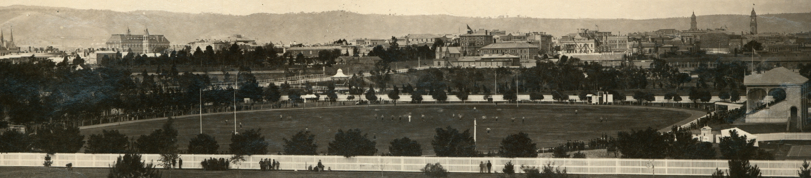 A SAFA match being played at Adelaide Oval in 1887.